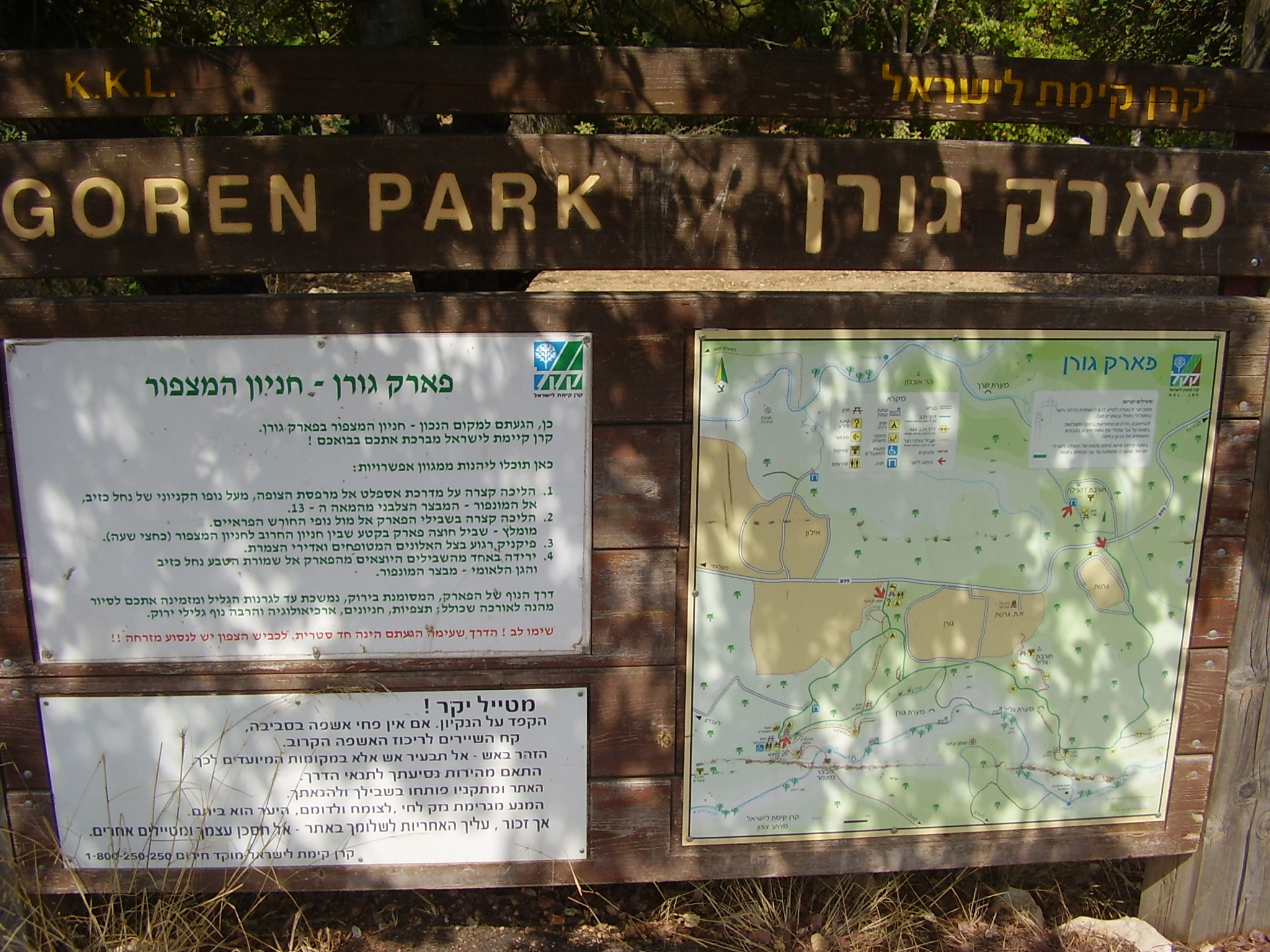 goren park פארק גורן